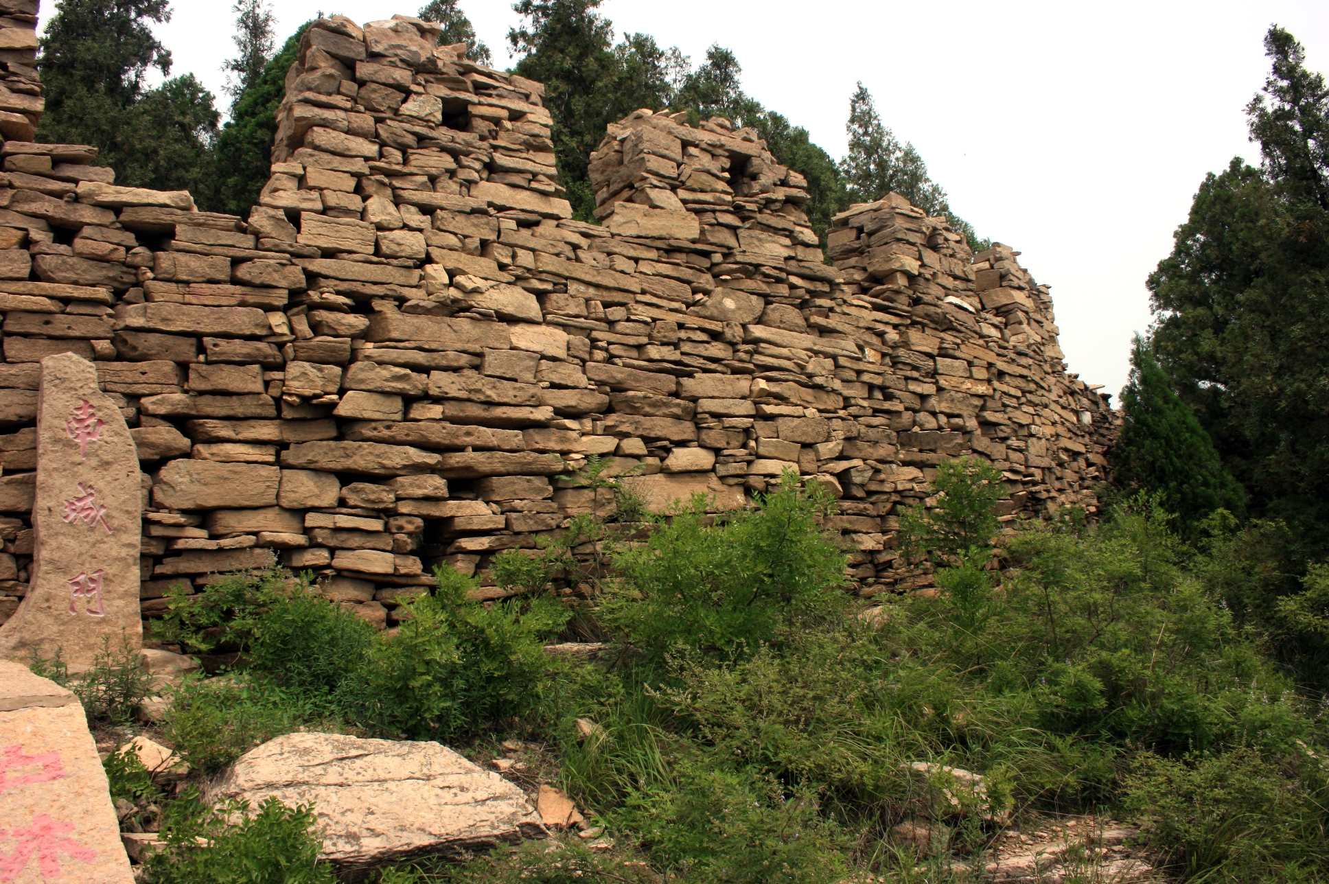 Photograph of the remnants of the Great Wall of Qi in the Da Feng Shan (Big Peak Mountain) in Shandong Province, China.